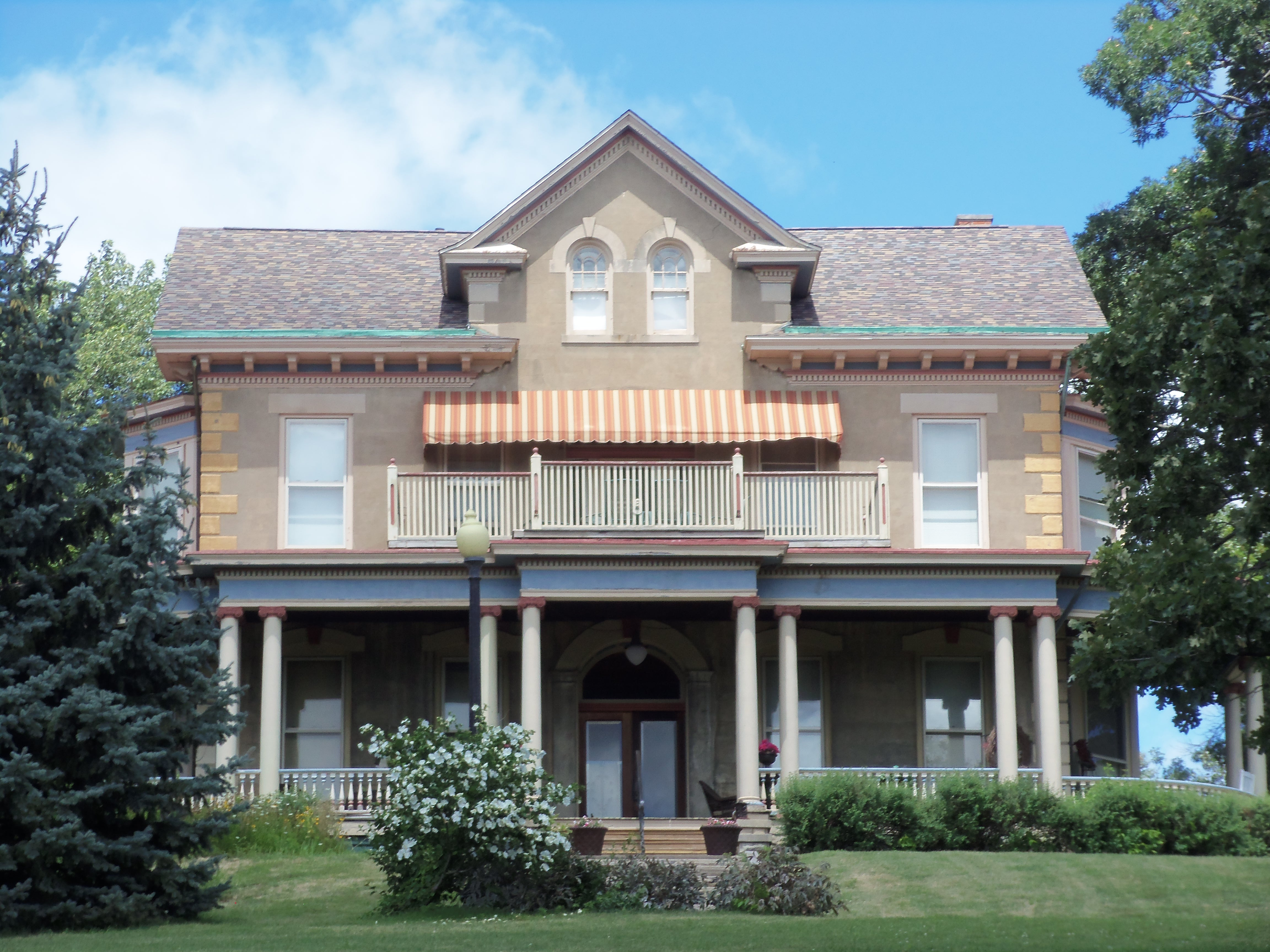 The Ambrose Fulton House is located at E. River Dr. and Bridge Ave. in Davenport, Iowa. It is a part of the Bridge Avenue Historic District on the National Register of Historic Places.